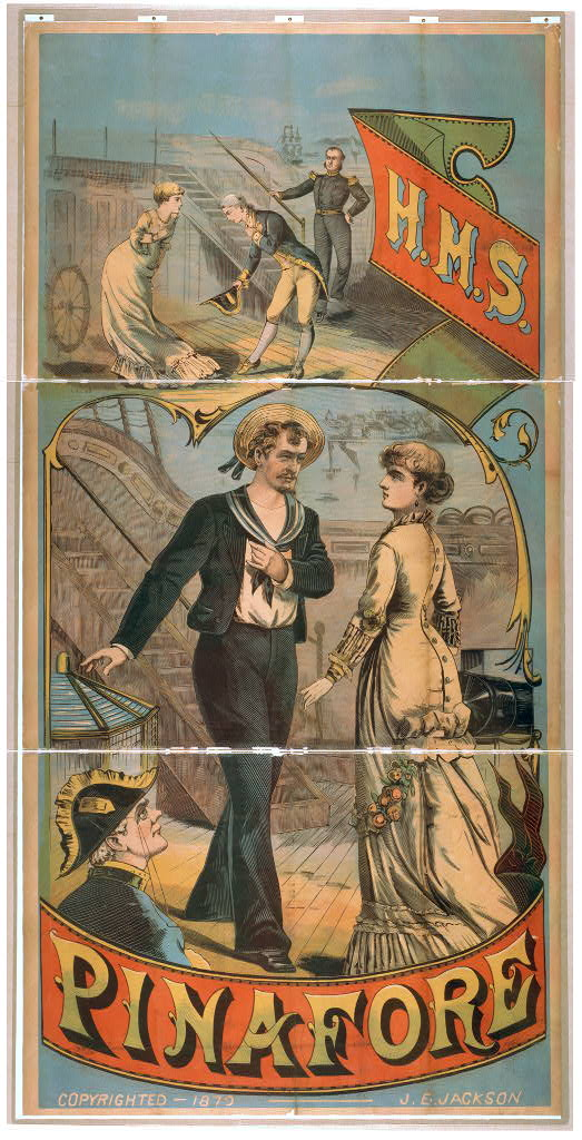 Circa 1879 Woodblock-print advertisement for an American production of H.M.S. Pinafore, housed at the Library of Congress. The Library of Congress site says that they are D'Oyly Carte Opera Company productions (see here), but that seems dubious, since Carte's name does not appear on the poster, and he would have been eager to distinguish his production (December 1879) from the many unauthorised productions.